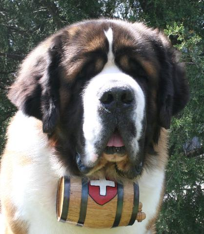 St. Bernard Dog.